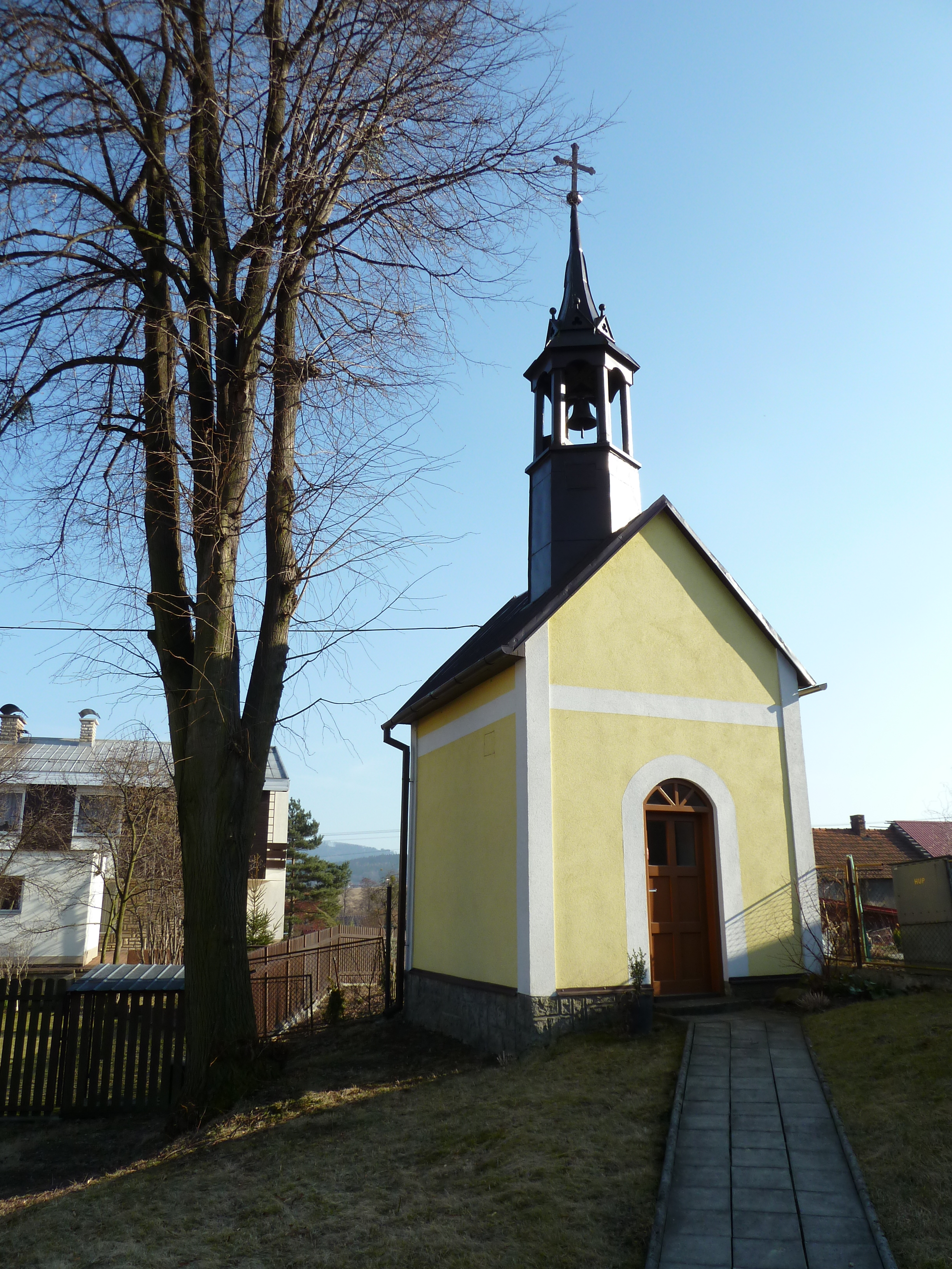 One of chapels in village Straník, part of town Nový Jičín (north-eastern Moravia, Czech Republic)